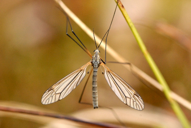 Tipula pruinosa from Commanster, Belgian High Ardennes .